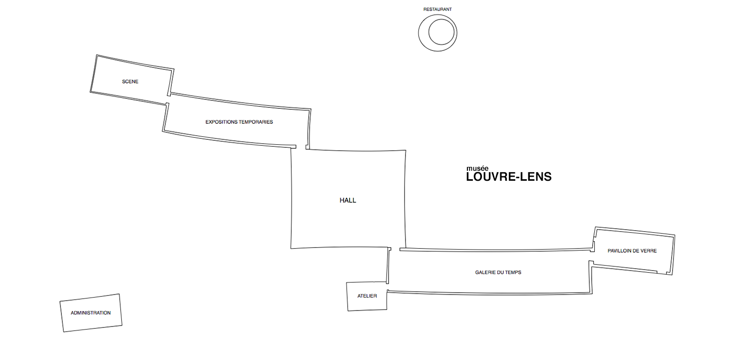 This file contains an independent rendering of the structural overview of the Louvre-Lens museum